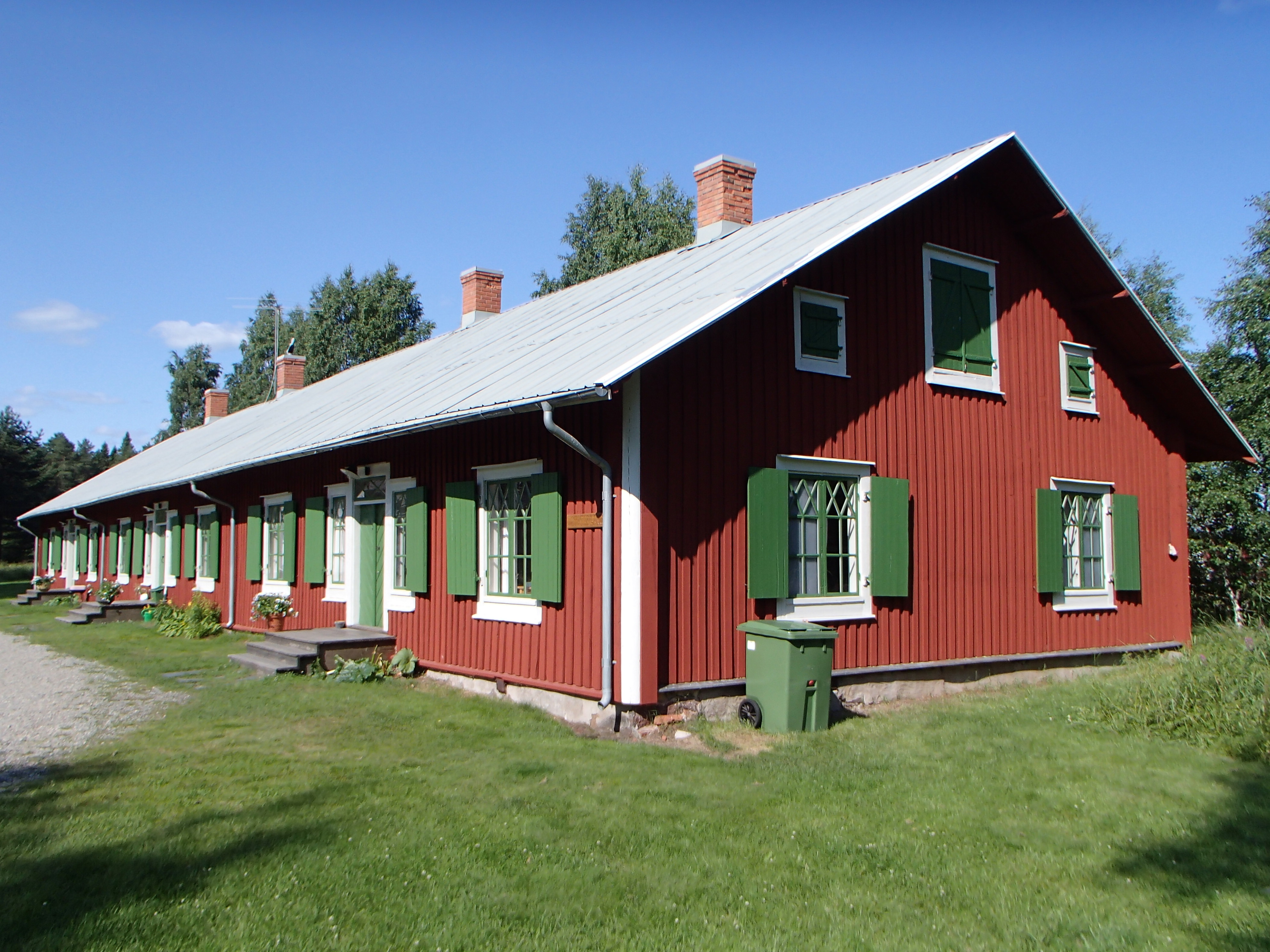 The workers quarters of "Hörnefors bruk" at Sundelinsvägen 62 in Hörnefors, Umeå Municipality, viewed from southwest